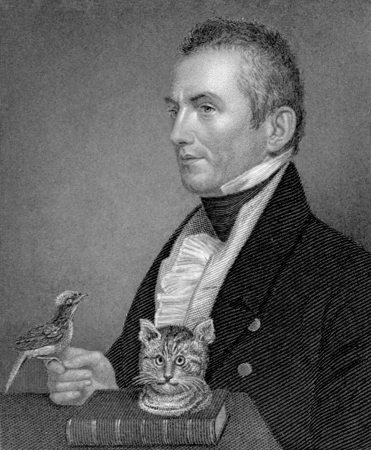 Portrait of Charles Waterton (1782-1865)